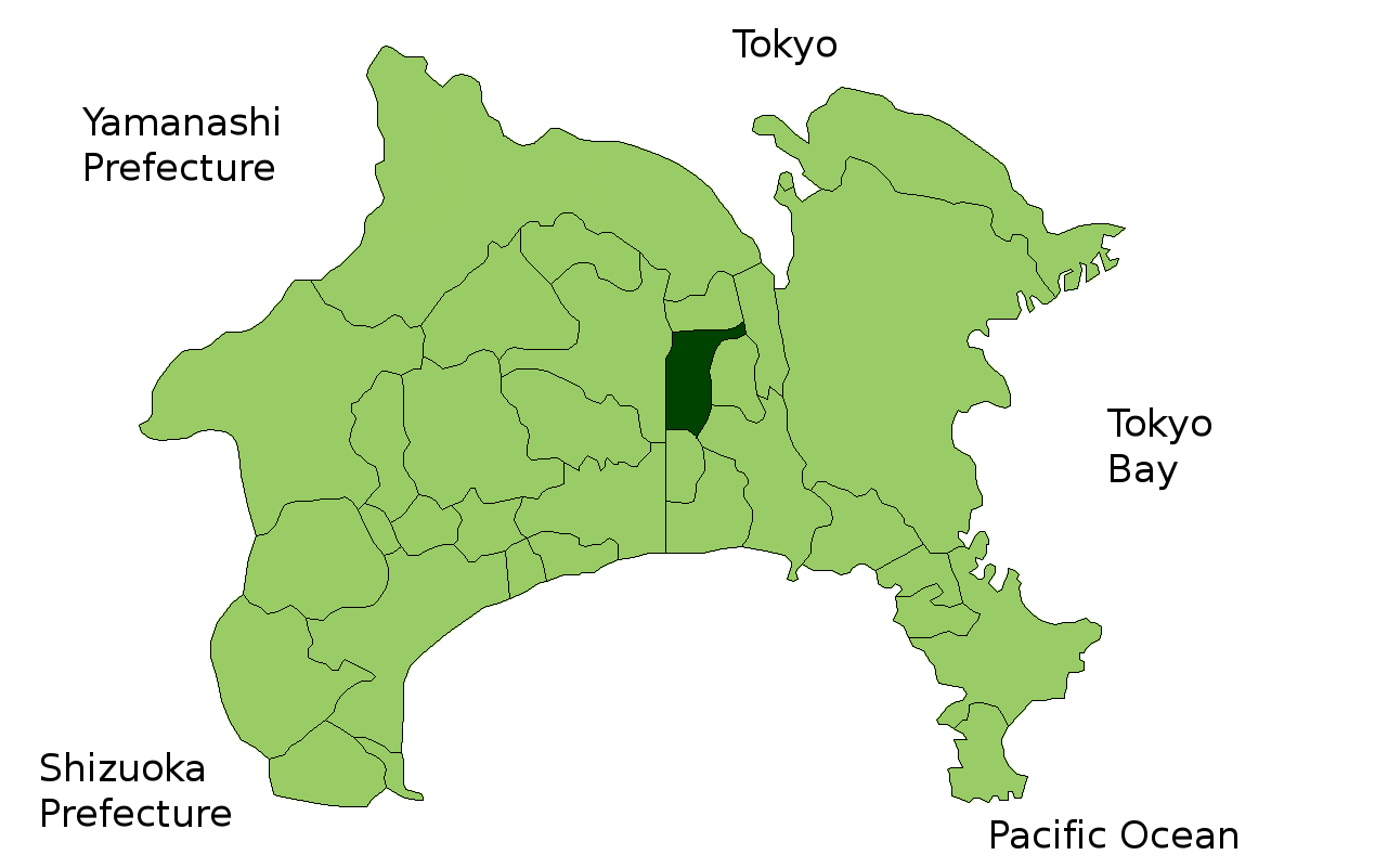 Location Map of Ebina in Kanagawa Prefecture, Japan